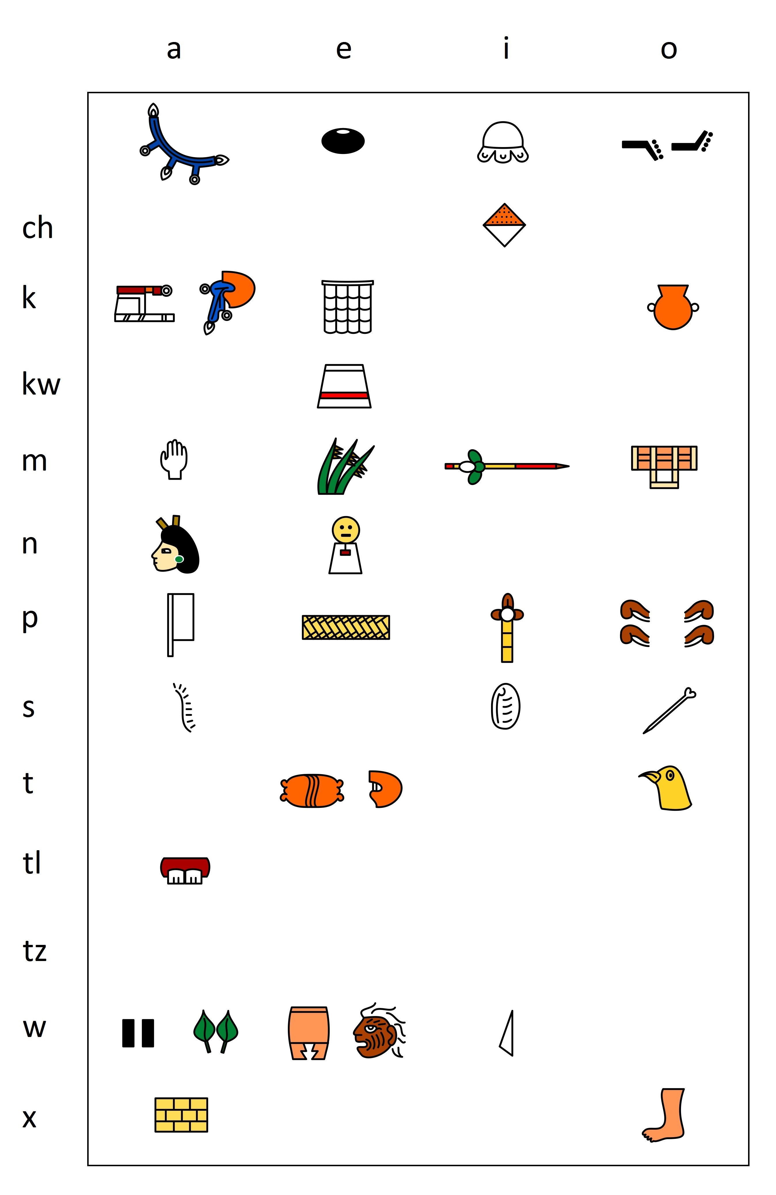 Aztec Syllabary in the International Phonetic Alphabet according to Lacadena and Wichmann 2004